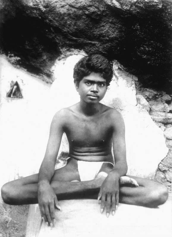 The earliest known photo of the Indian sage Bhagavan Sri Ramana Maharshi. Taken in 1902, the photo shows Ramana Maharshi aged twenty-two on Arunachala hill, Tiruvannamalai, South India.